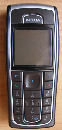 Nokia 6230